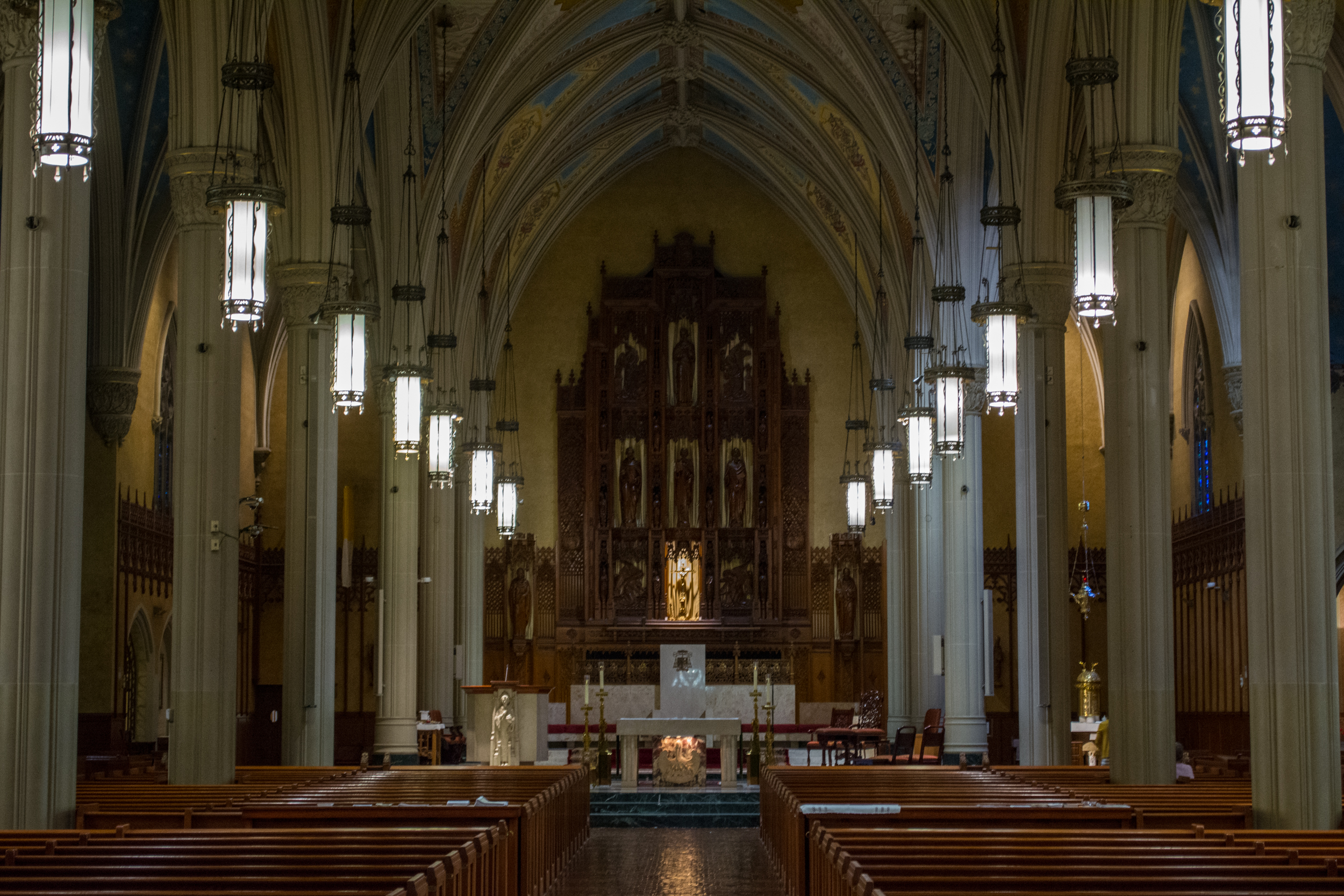 St. John's Cathedral, Cleveland, Ohio, USA; Roman Catholic Diocese of Cleveland